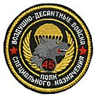 Old patch of the Russian 45th Separate Reconnaissance Regiment.